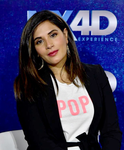 Richa Chadda at the launch of India's first MX4D EFX Theatre at Inorbit Mall, Malad.